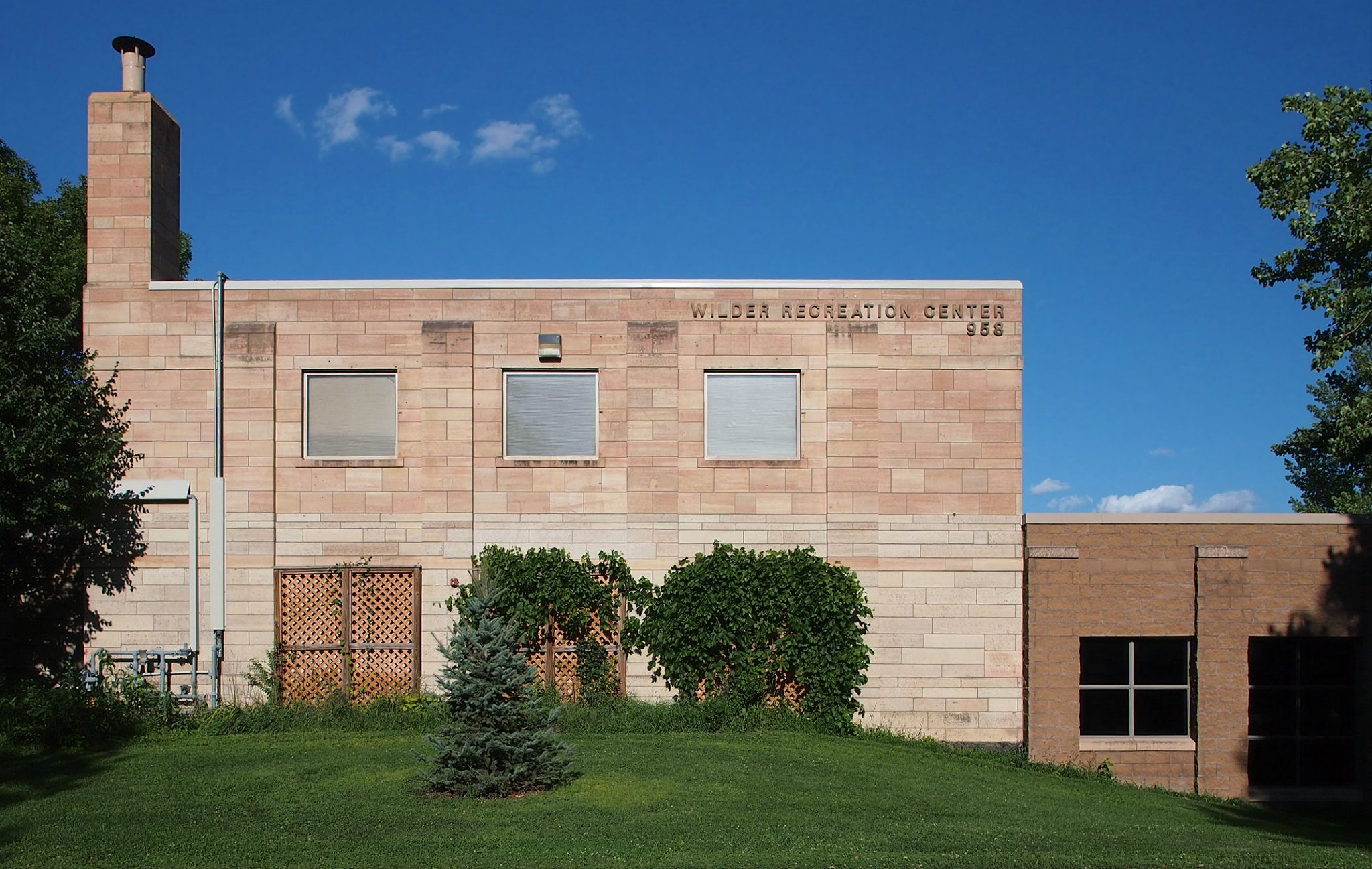 Wilder Recreation Center, 958 Jessie St, St Paul, Minnesota, USA. Main venue of the City Academy High School.